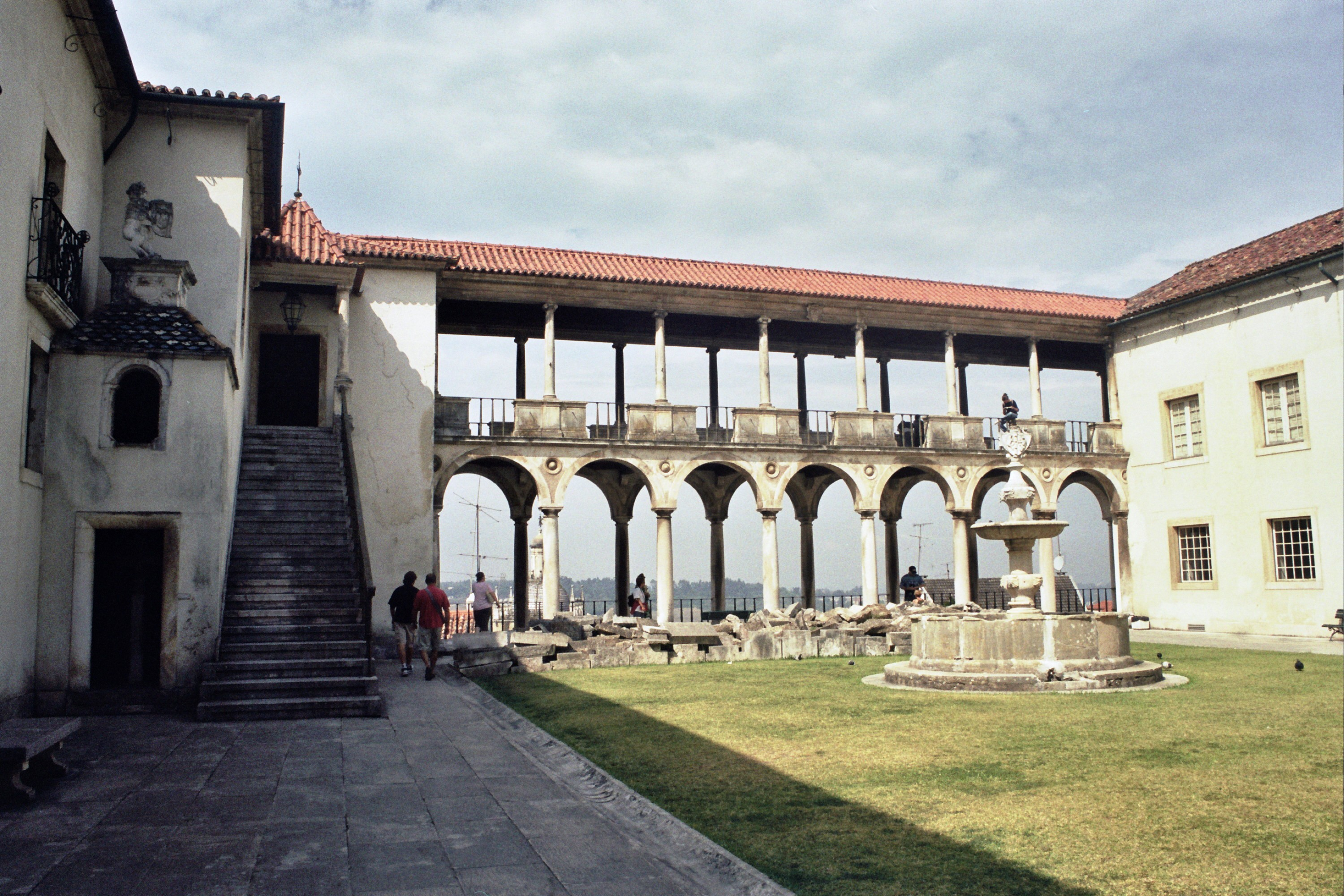 Museu Nacional de Machado de Castro